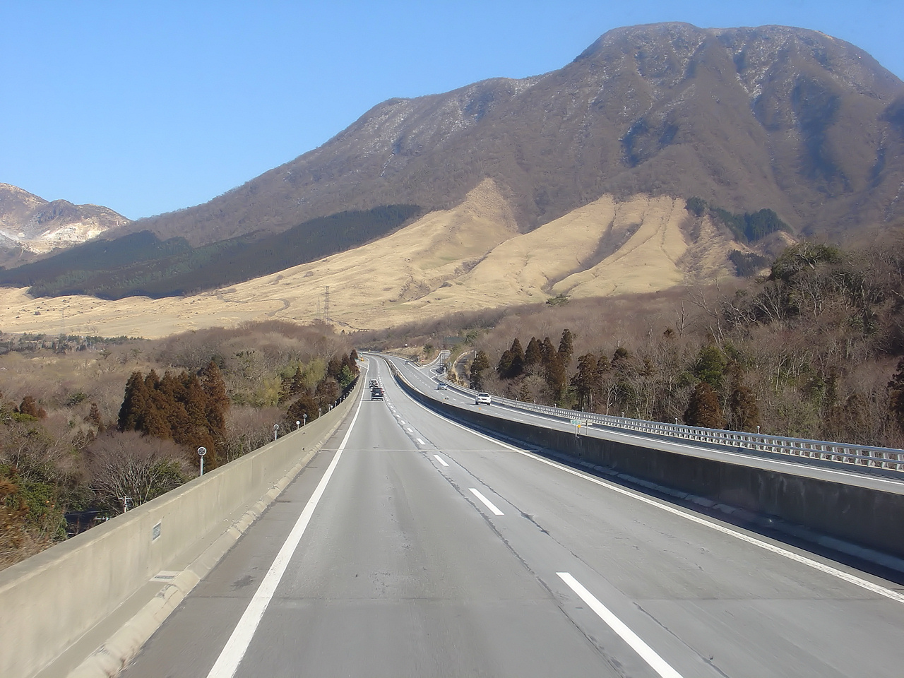 Oita Expressway, Near Yufudake PA.(Yufu City, Oita Prefecture, Japan)